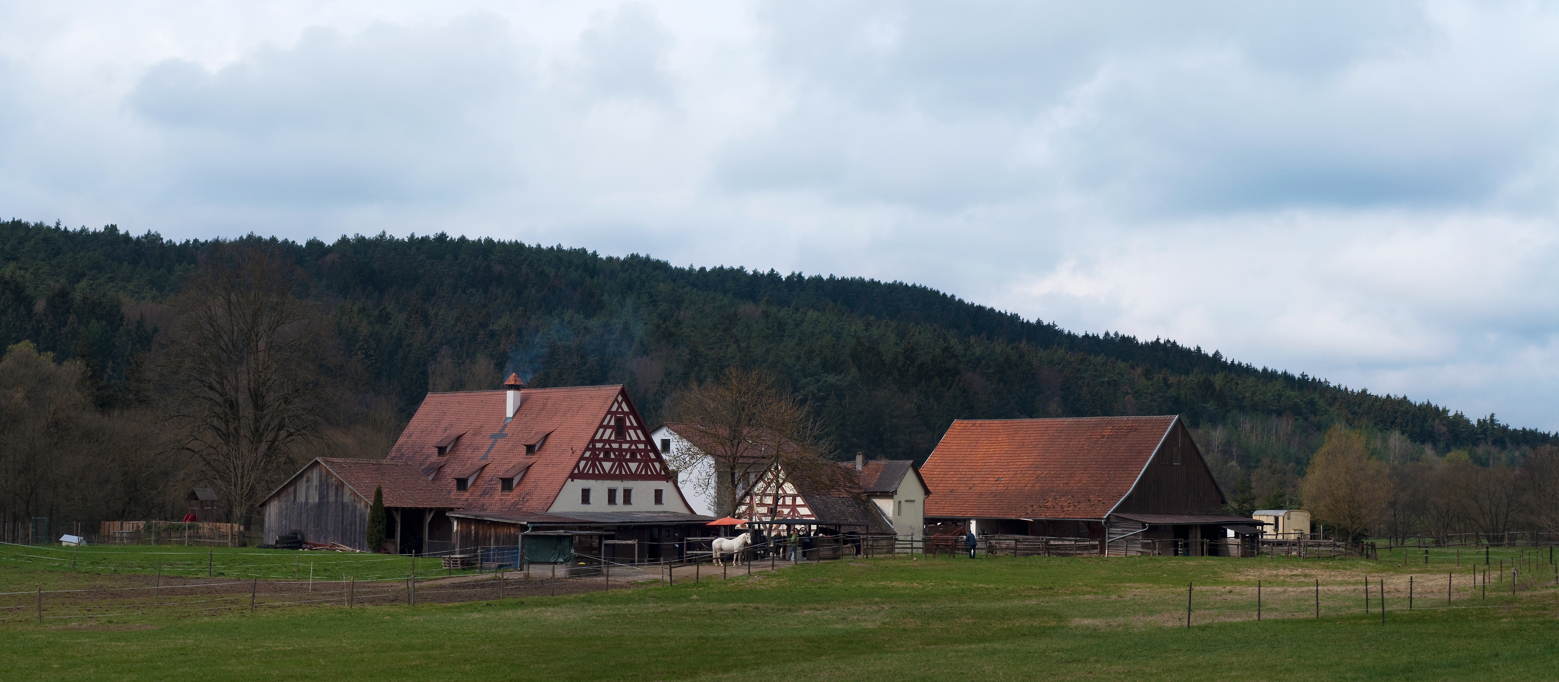 The museum Klostermühle near Gnadenberg, Upper Palatinate, Bavaria, Germany 8 D